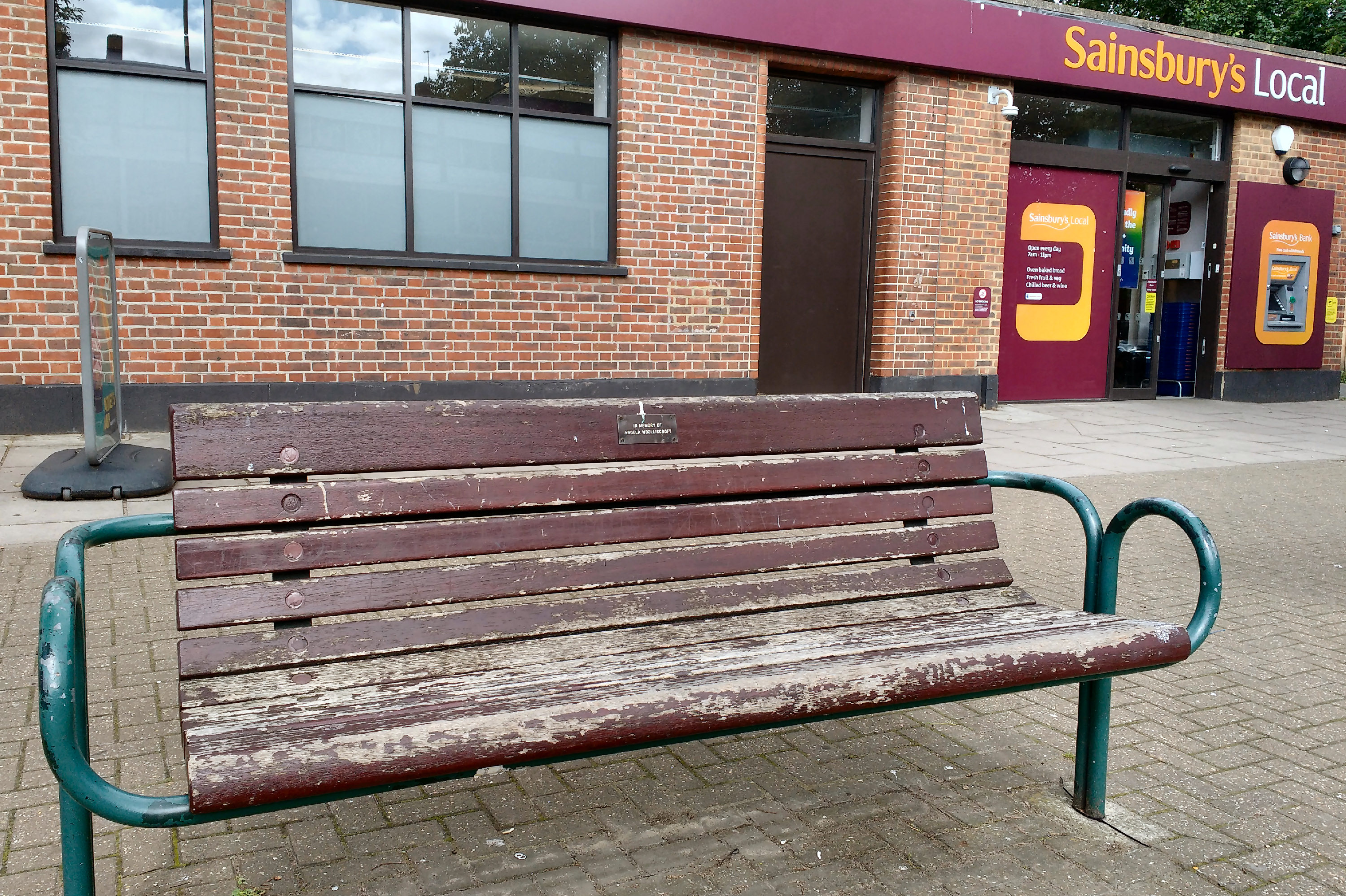 Ham Parade, Angela Woolliscoft memorial seat. "In Memory of Angela Woolliscoft". Killed 1976 during a bank robbery at Barclays Bank on Ham Parade.